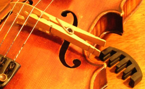 Photo taken 2007 Jan 13 by JpB ad hoc violin mute (clothespin) and rubber practice mute, viola size